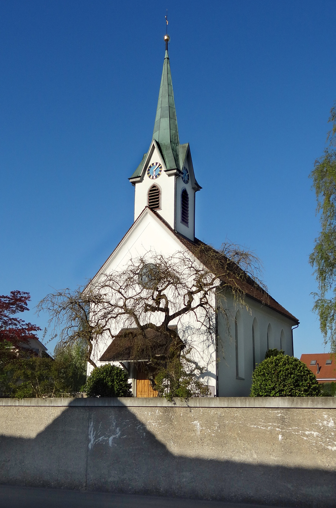 Reformed church of Andwil, Switzerland